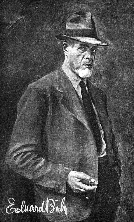 Eduard Bick (1883–1947) Bildhauer, Maler, Zeichner (Porträt 1945)